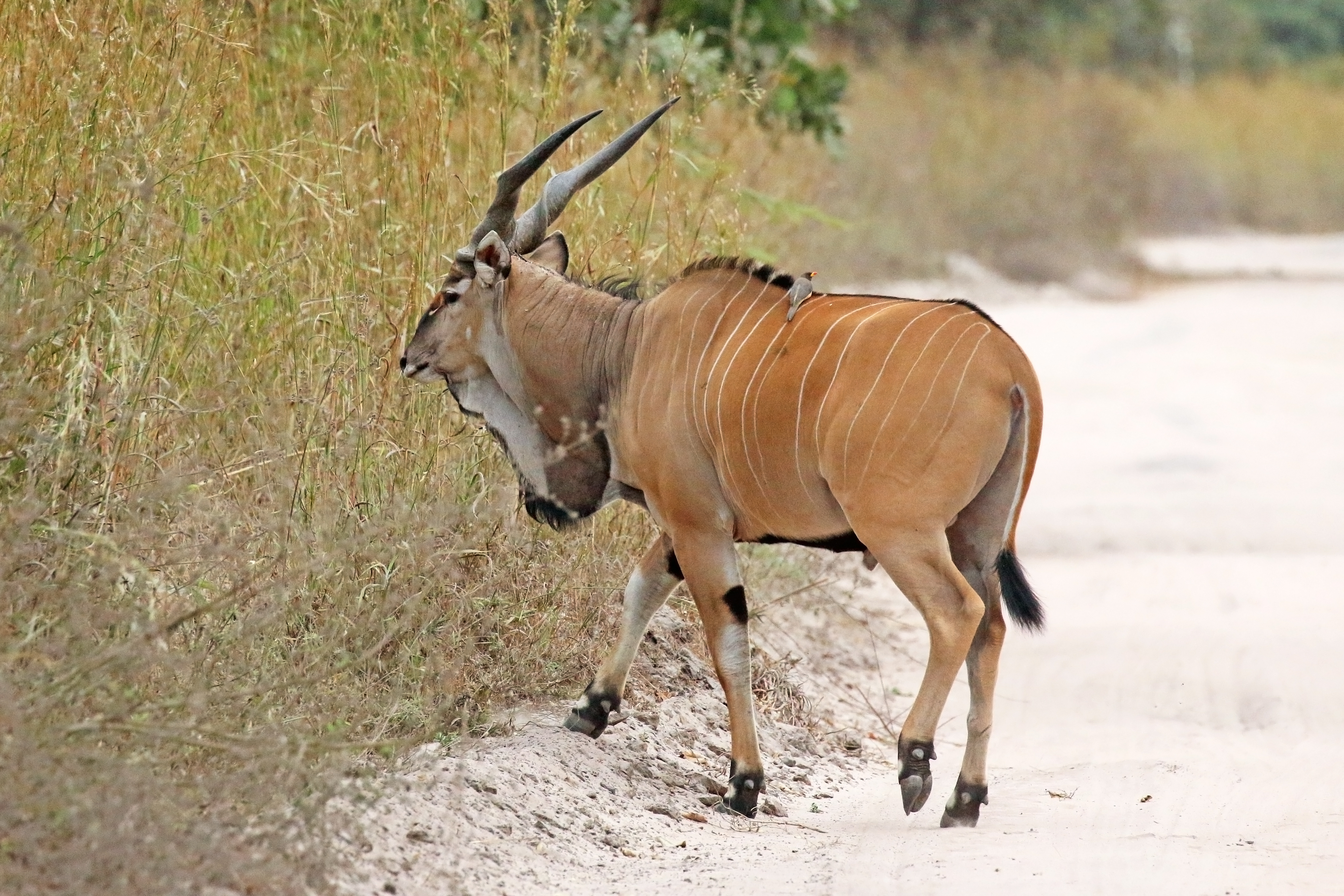 Giant eland (Taurotragus derbianus derbianus) male, Senegal